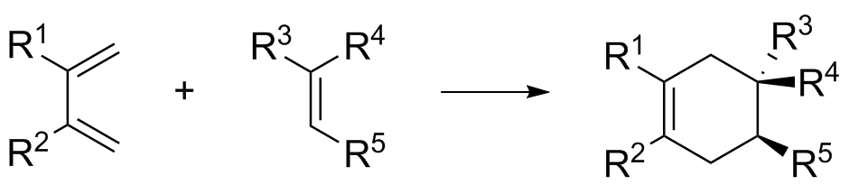 Scheme illustrating the Alder-Stein principle, for use in the inverse electron demand Diels-Alder article.